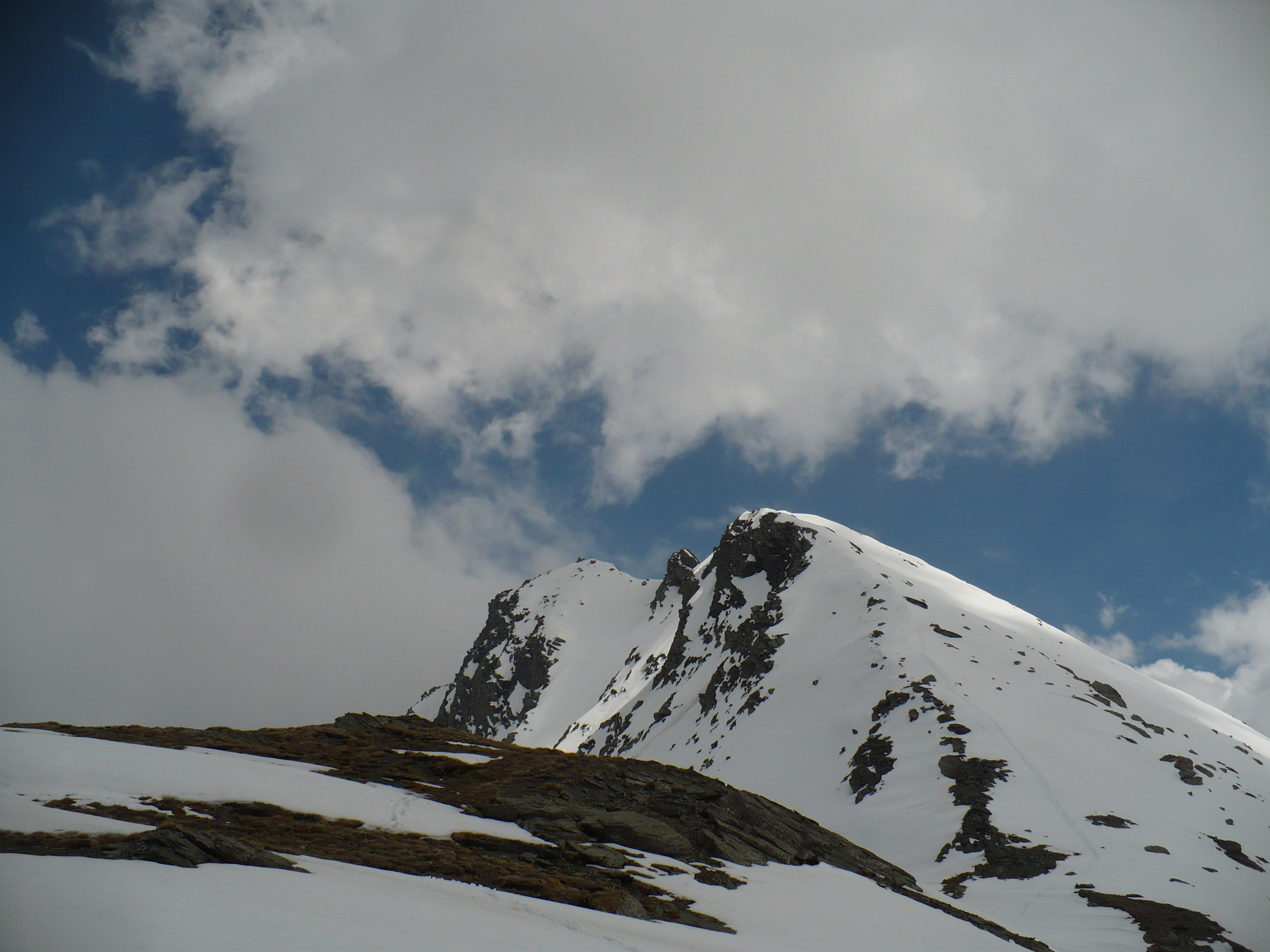 Bric Ghinert- Province of Turin